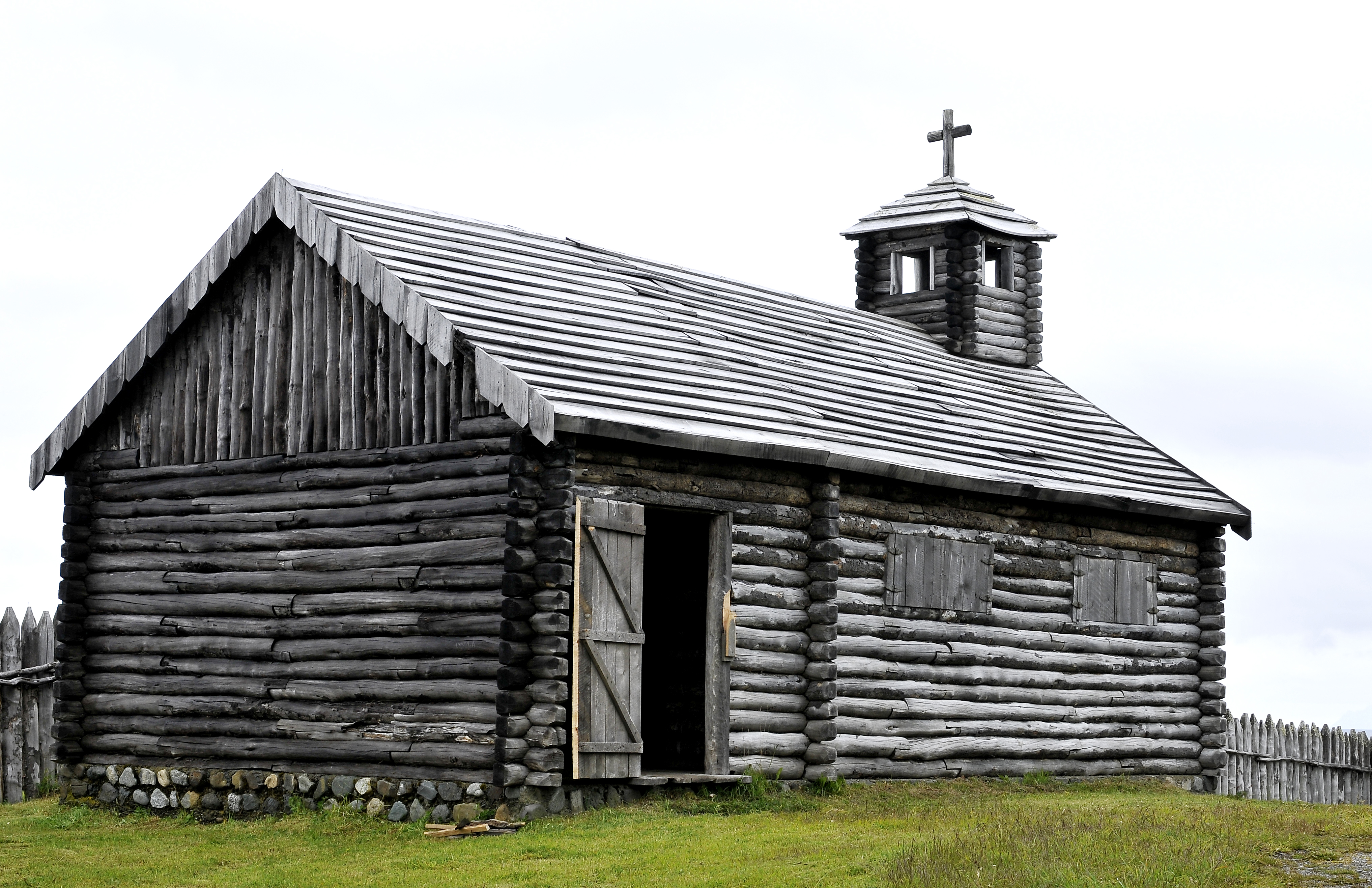 Bulnes Fort. Punta Arenas, Magallanes, Chile